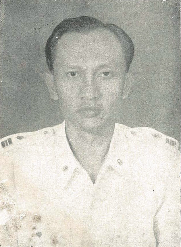 Waloejo Soegito